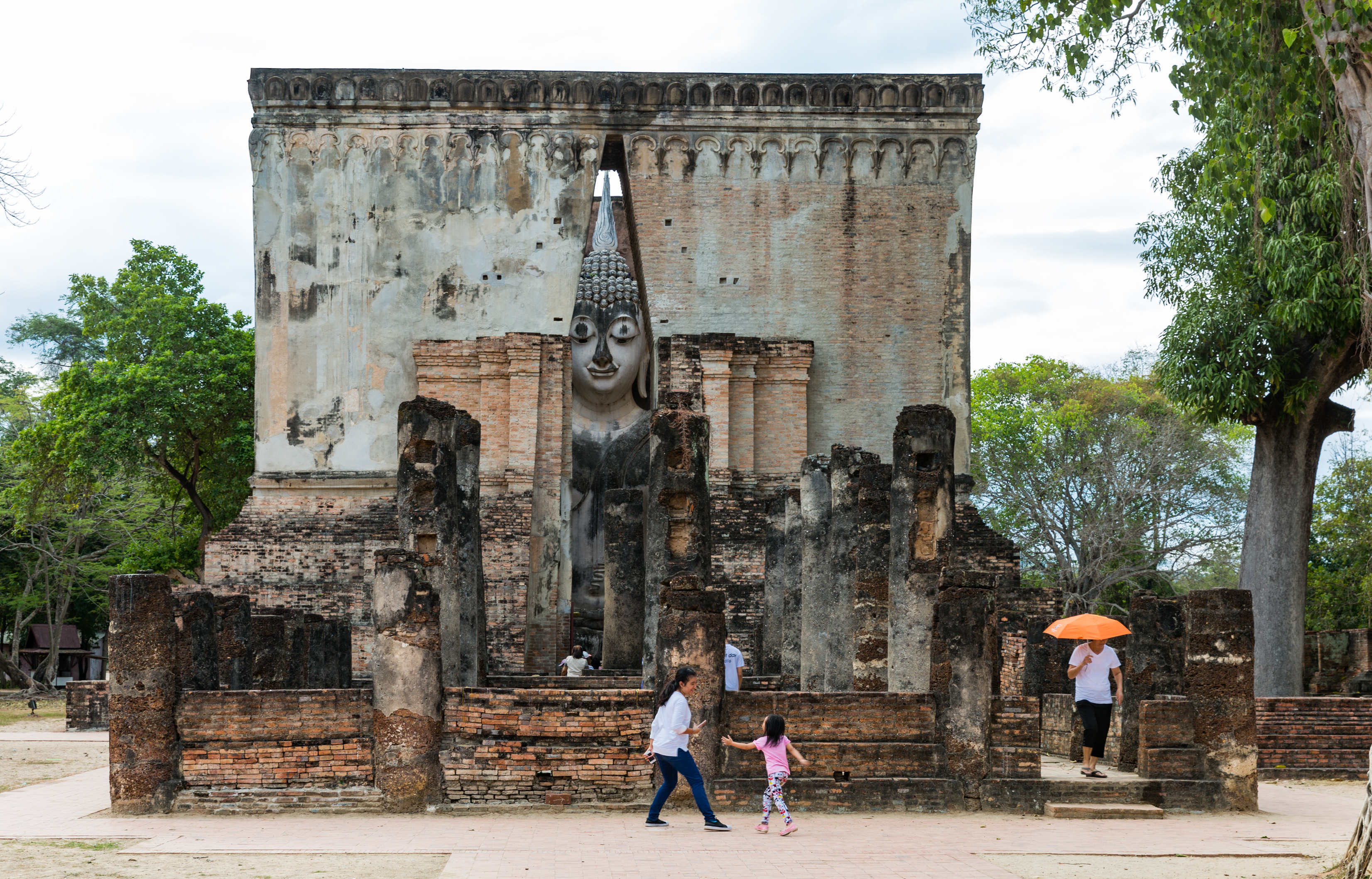 Buddha statue in Wat Si Chum, Sukhothai